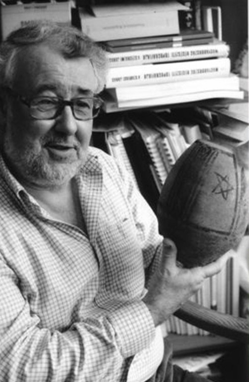 Andrew Sheratt, British archaeologist